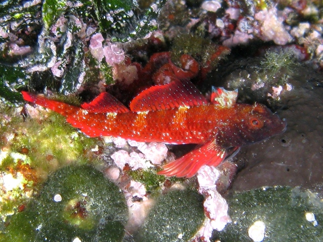 Spawning male Tripterygion tripteronotum photographed in Croatian waters. Photo by Roberto Pillon.